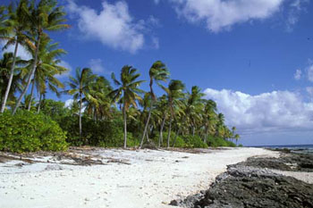 Beach near boat landing site on Orona (formerly Hull) Island, Phoenix Islands, Kiribati. Original field notes: Notes extensive sandy beach for nesting turtles, and rounded vegetation, reclaiming their original place in the ecosystem as coconut palms gradually die out.